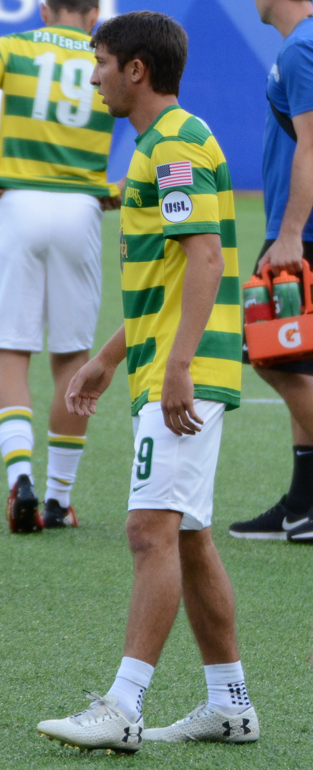 Alex Morrell Taken during a match between FC Cincinnati and Tampa Bay Rowdies at Nippert Stadium in Cincinnati, USA on April 19, 2017.